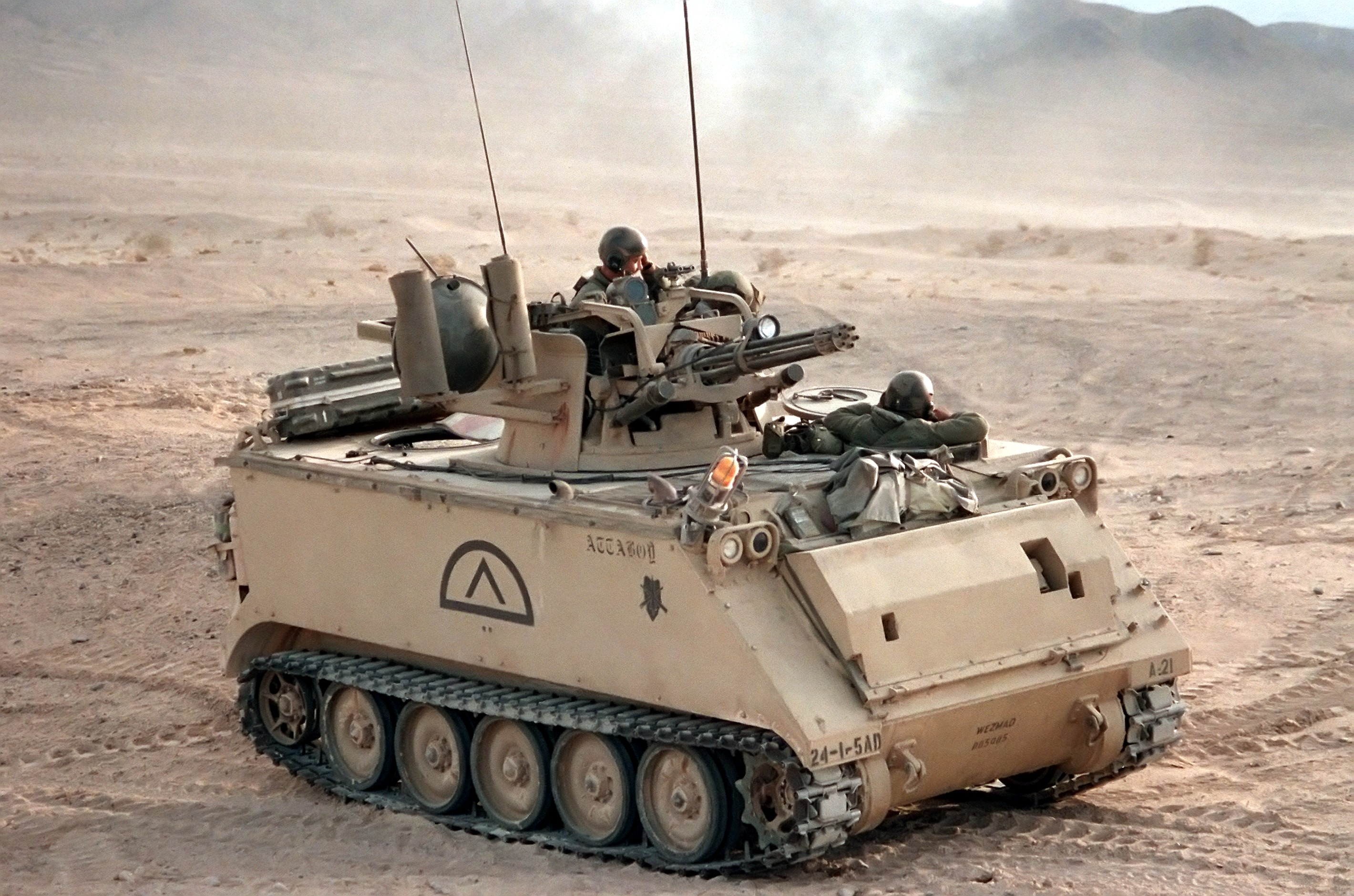 Crewmen stand in the hatches of an M163 Vulcan self-propelled anti-aircraft gun of the 24th Infantry Division (Mechanized) during an exercise at the National Training Center. The M163 consists of an M168 Vulcan 20 mm cannon with radar fire control mounted on a modified M113 armored personnel carrier.